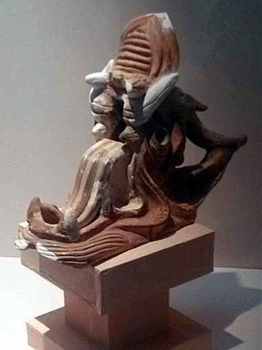 Gray Pottery Architecture Omament, collection of Ningxia Museum, unearthed at Yinchuan, Ningxia in 1974.